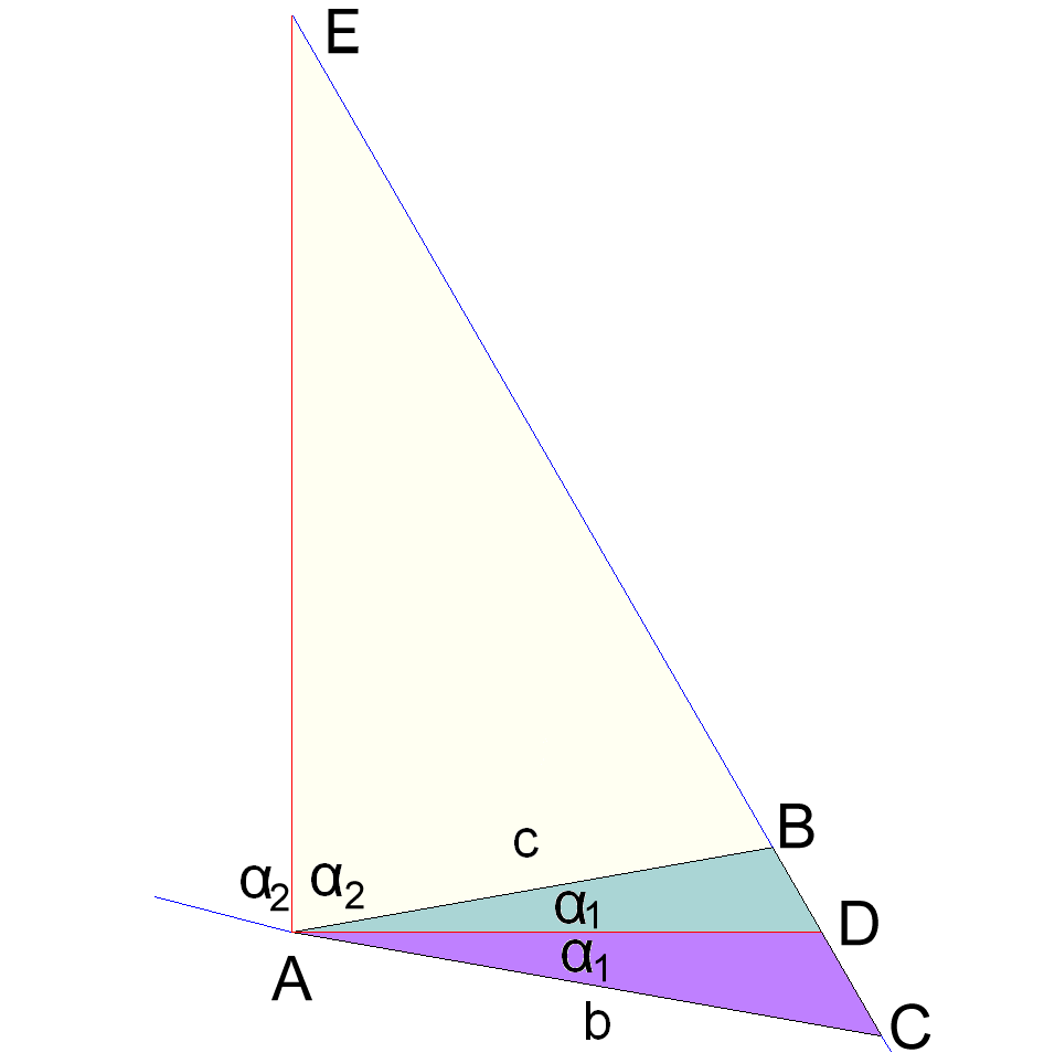 A drawing to angle bisector theorem showing harmonic quadruplet of points C, B, D, and E.